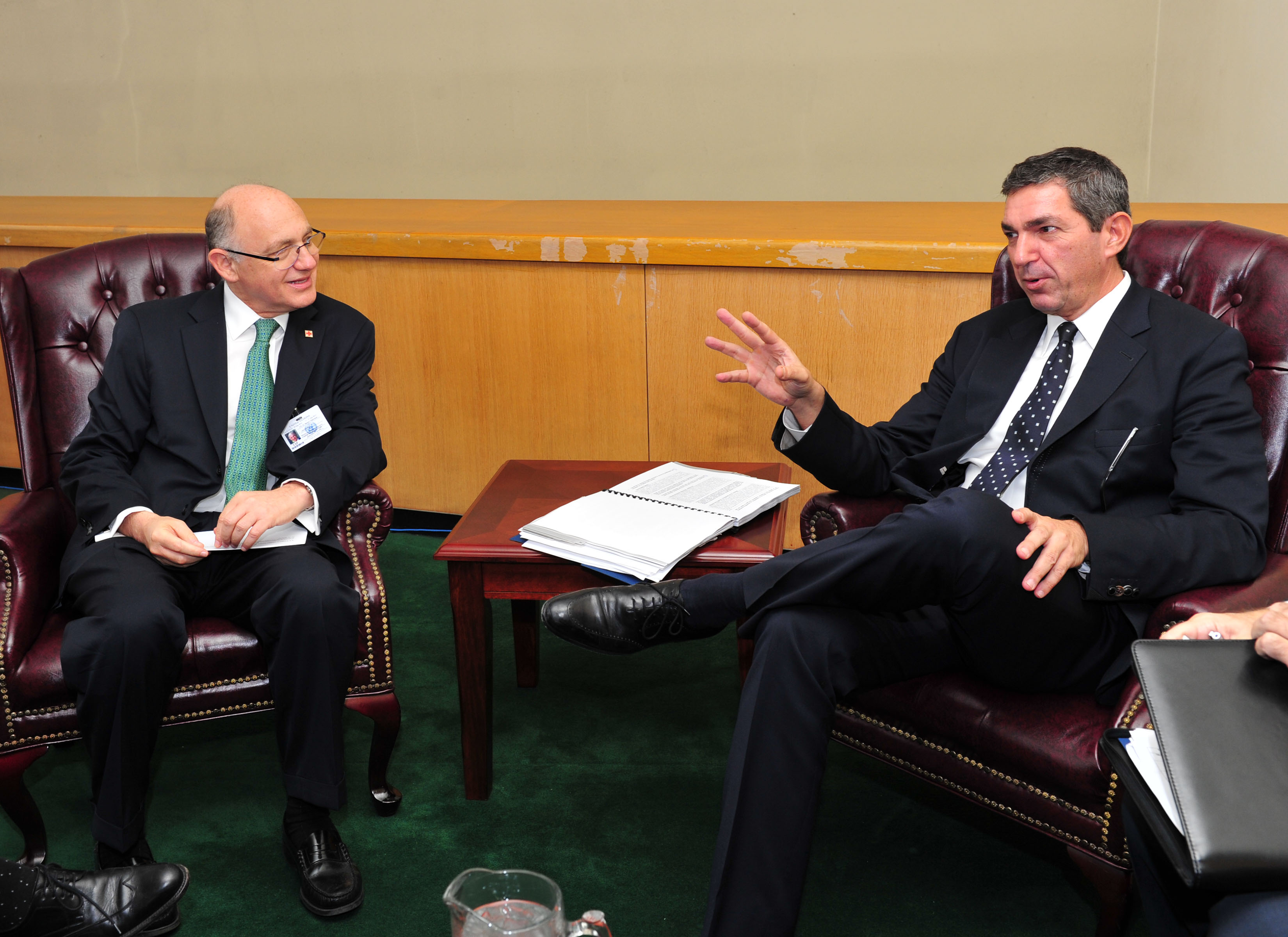 The Foreign Minister Stavros Lambrinidis met with Argentine Foreign Minister Hector Timerman on the sidelines of the 66th UN General Assembly in New York, Thursday, Sept. 22, 2011. GANP / ANA-MPA / DIMITRIS PANAGOS.